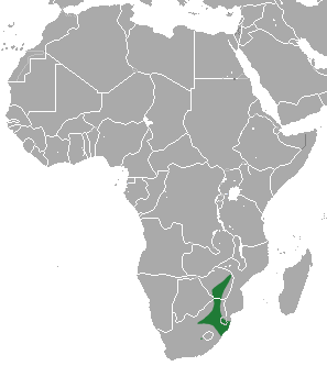 Makwassie Musk Shrew (Crocidura maquassiensis) range